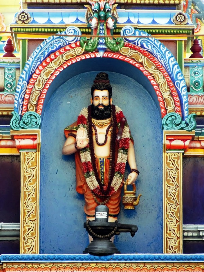 Statue of Sri Guru Thipperudraswamy at Nayakanahatti Temple